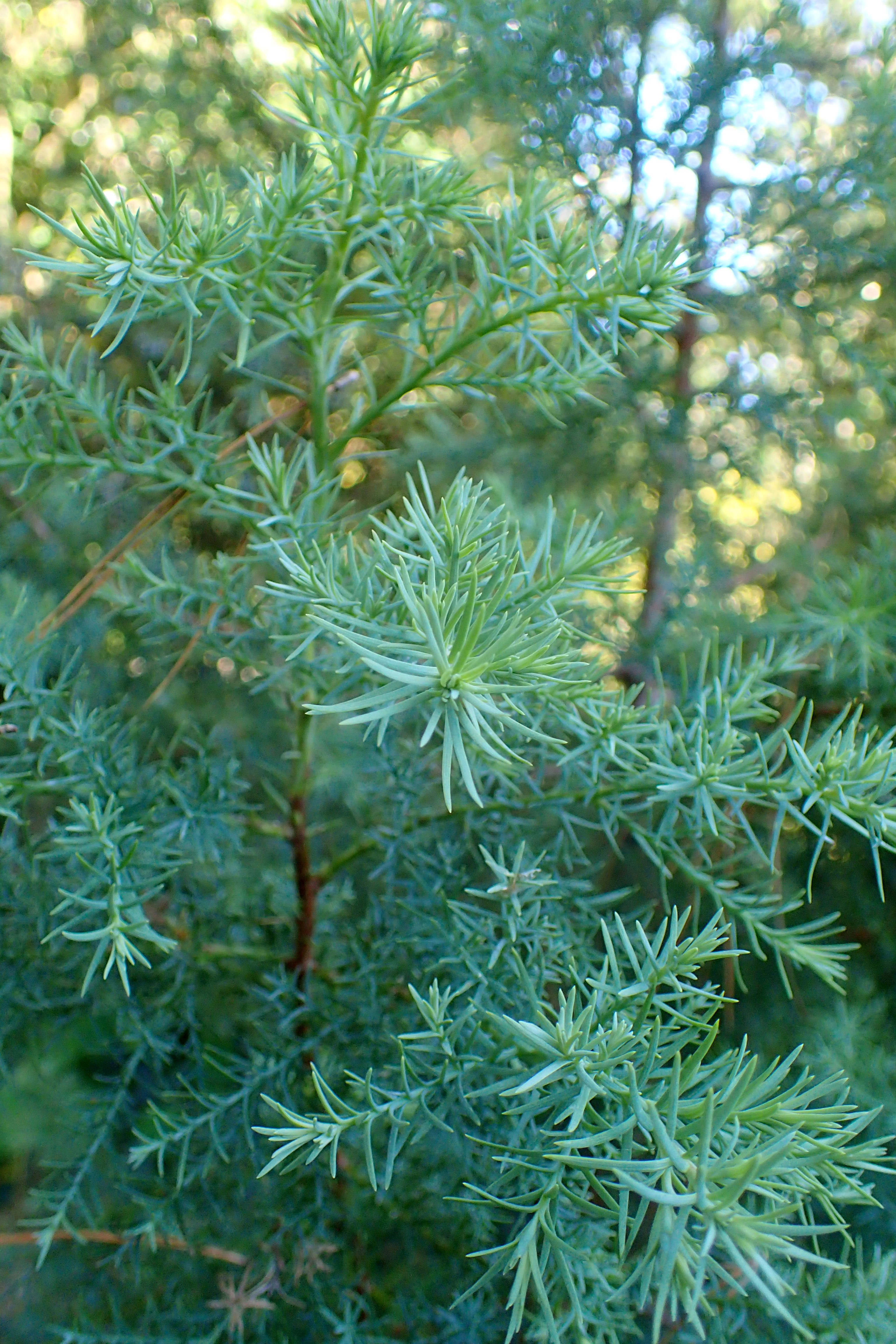 Widdringtonia schwarzii in the San Francisco Botanical Garden